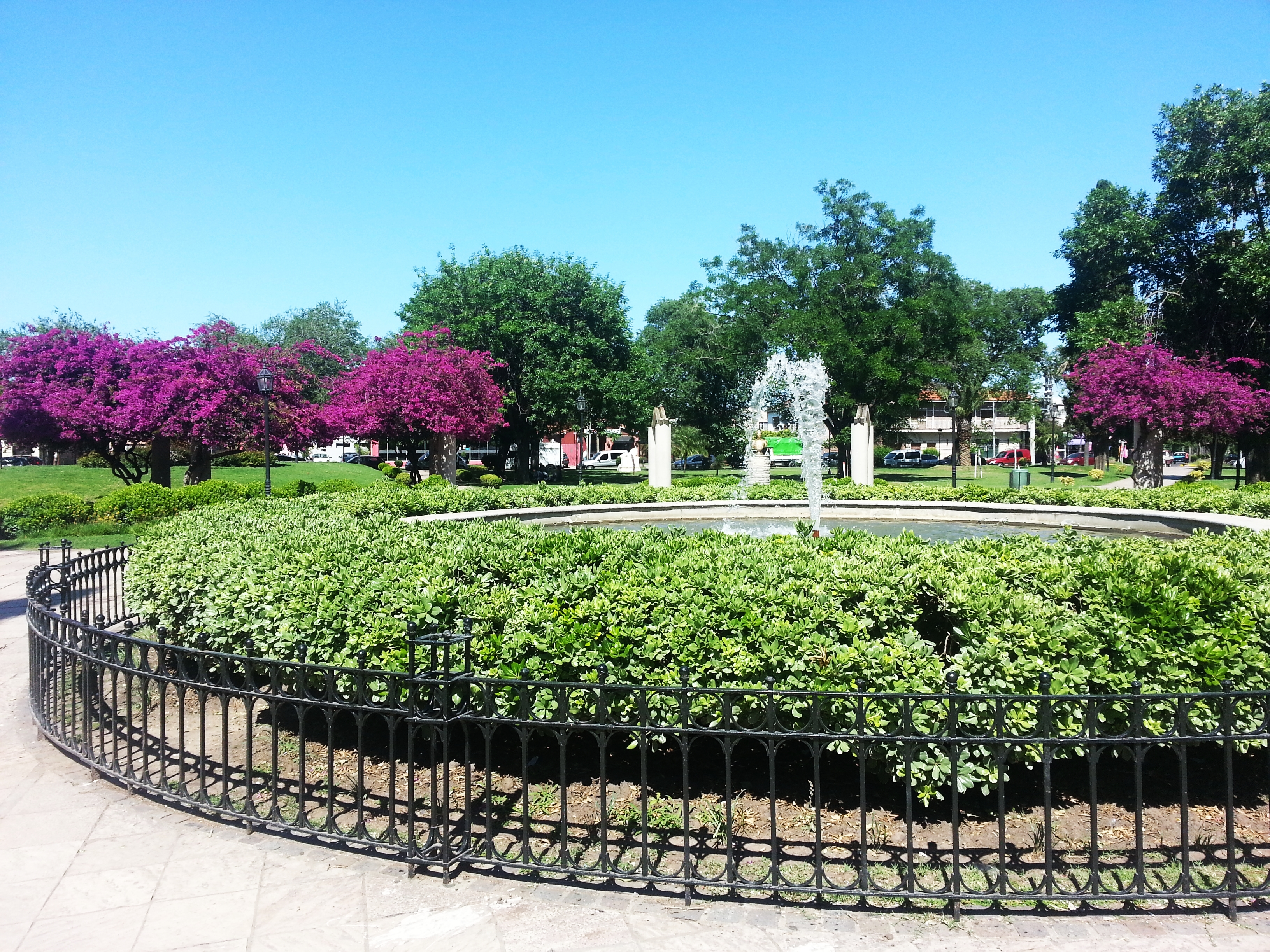 Gral. Ángel Pacheco square, in General Pacheco, Tigre Partido, Buenos Aires Province. Bougainvillea spectabilis, with its red-purple bracts, stands out in the landscape.